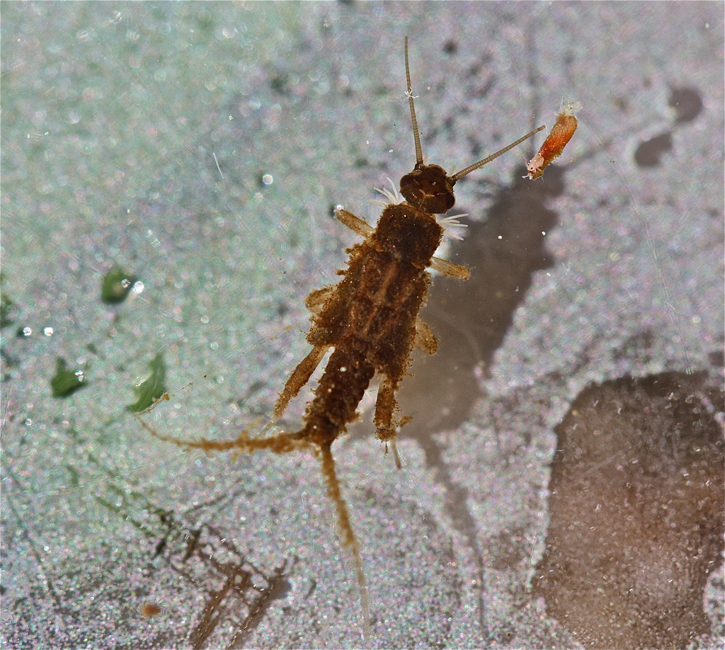 Taken by Bob Henricks on 23 April 2011. Rights reserved from CC BY-SA 3.0 license.